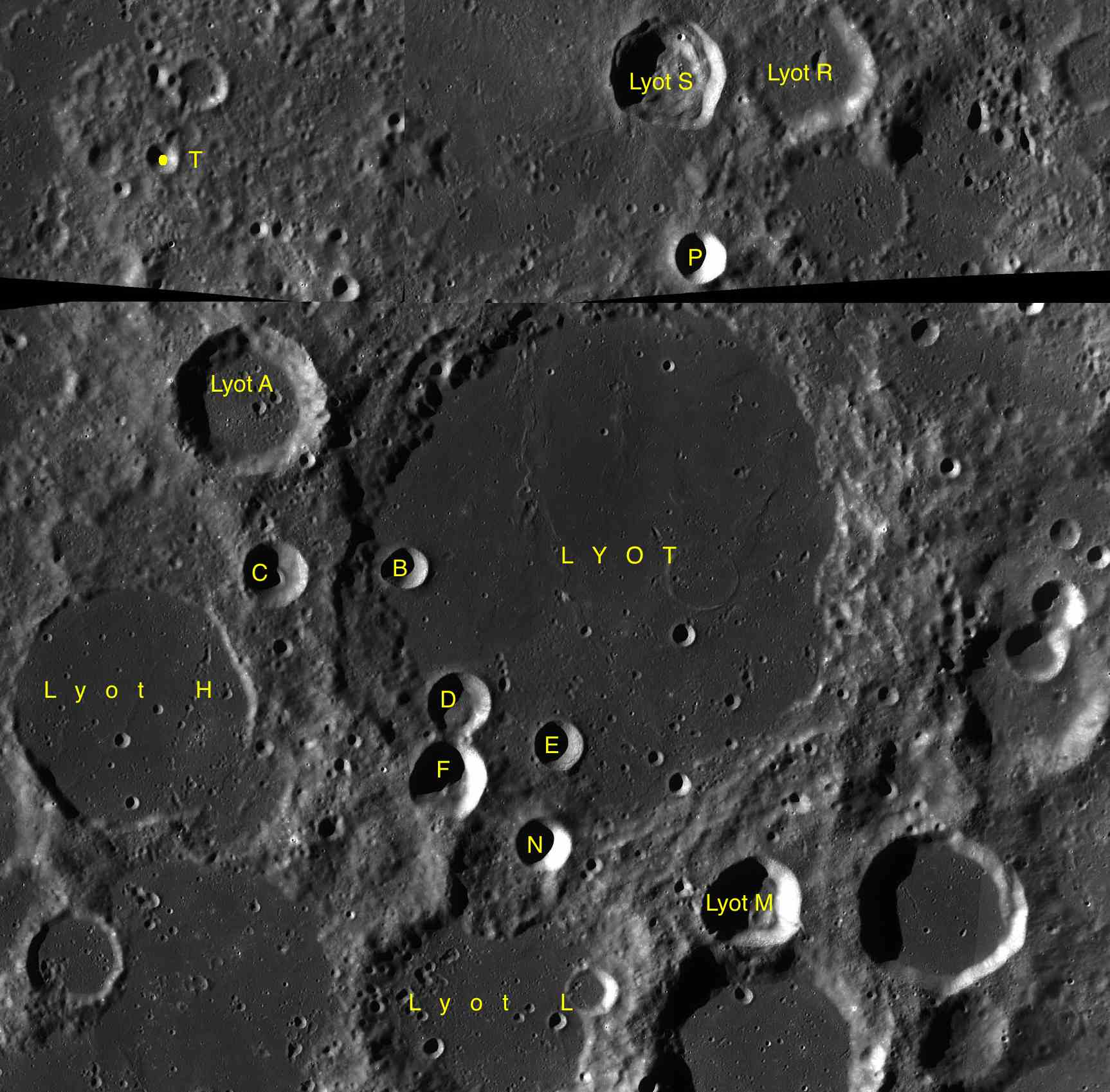 Parts of the charts LAC-115, LAC-116, LAC-129 used for the presentation